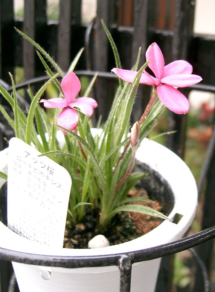 Rhodohypoxis baurii; Scientific name: Rhodohypoxis baurii